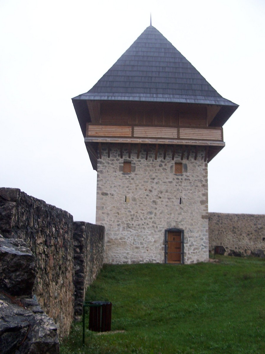 Kljuc (Bosnia and Hercegovina) Old Town Tower